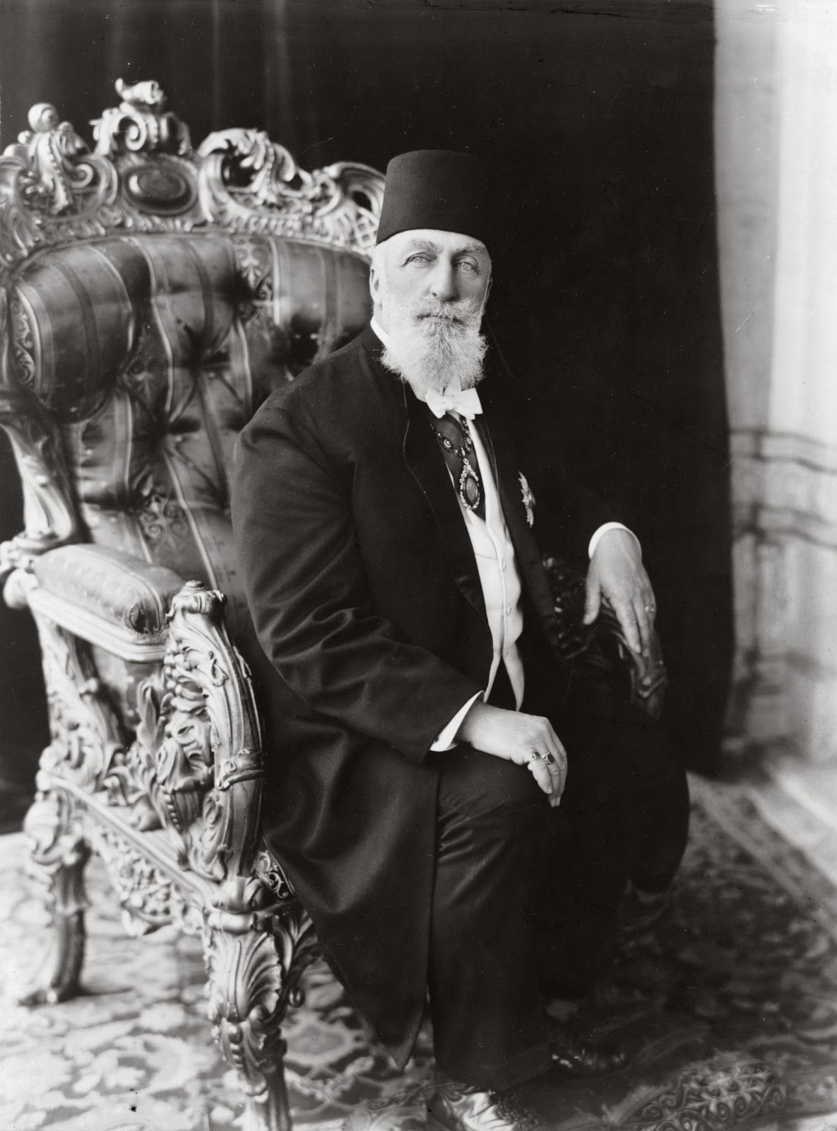 Portrait of the last Caliph Abdulmecid II of the Ottoman Empire.